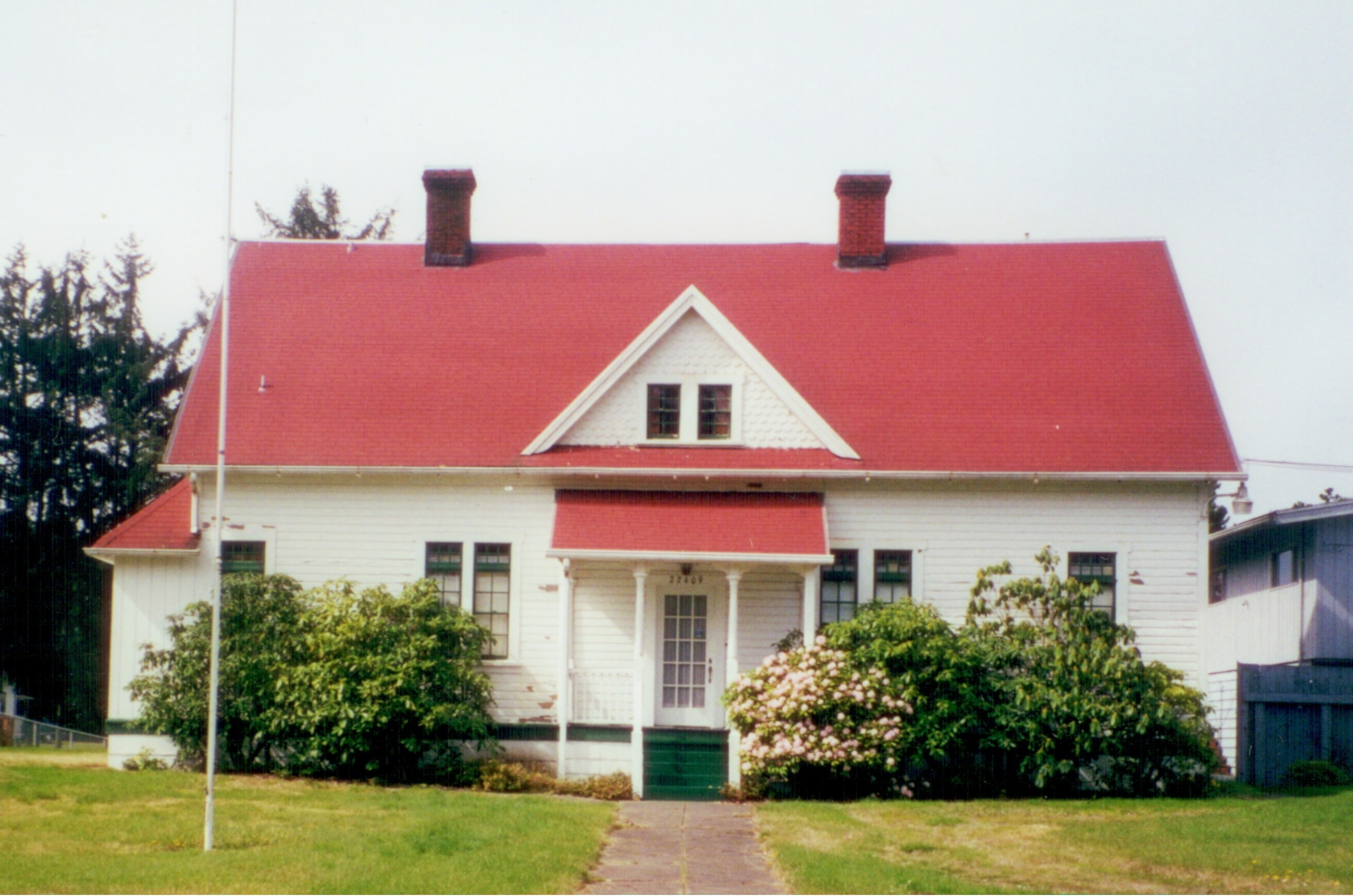 Taken myself on March 25, 2000.